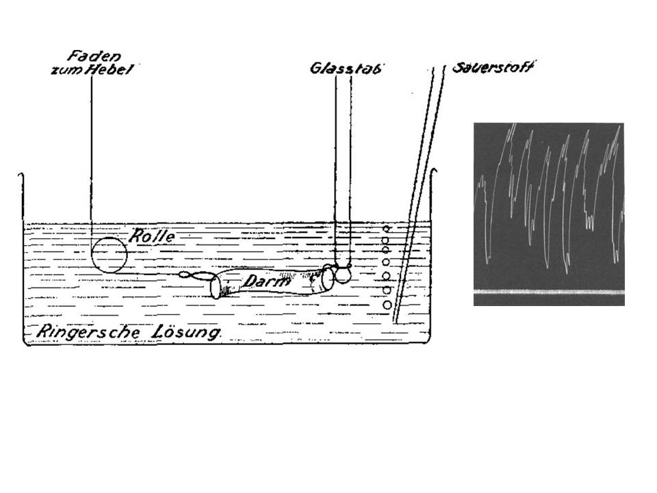 Method for recording contractions of isolated intestine, and contraction record on smoked drum. Original decription by Rudolf Magnus in Heidelberg